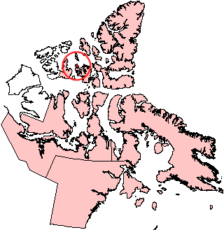 Base image created by Keith Edkins as GFDL, modified by Tim Vasquez.